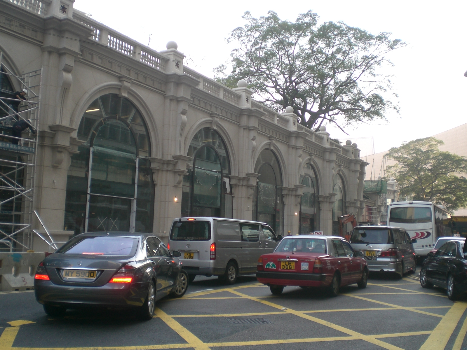 九龍zh:尖沙咀廣東道zh:前香港水警總部